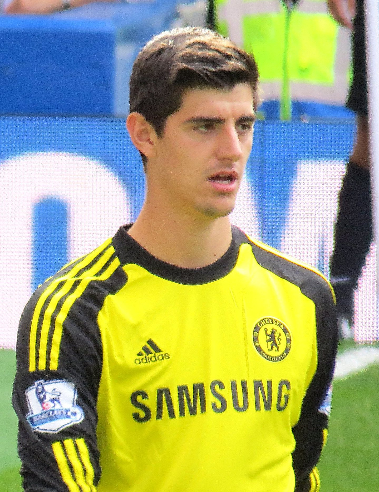 Thibaut Courtois August 2014 at home to Leicester City